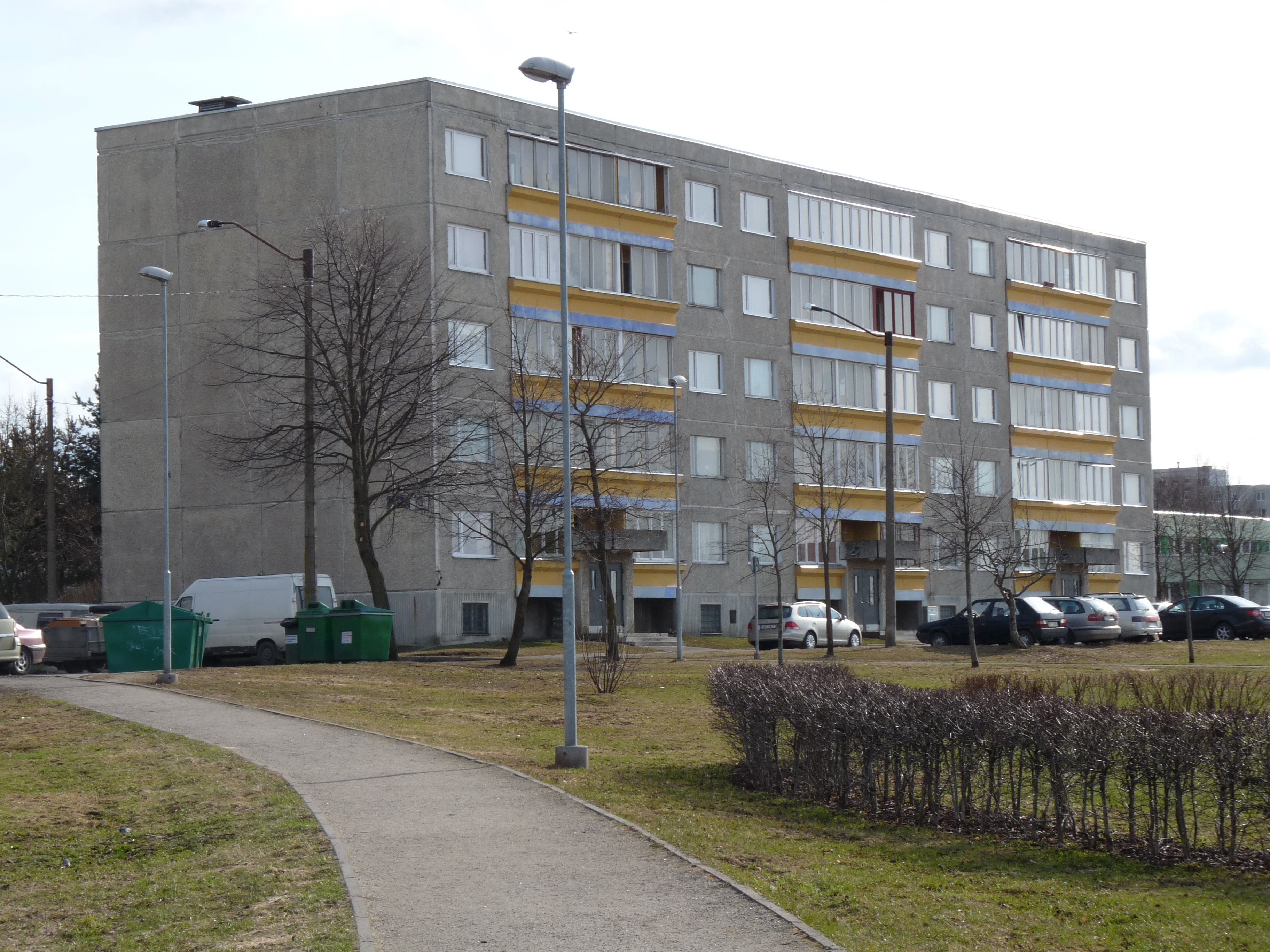 Small apartment block (type 111-121) in Arbu street.